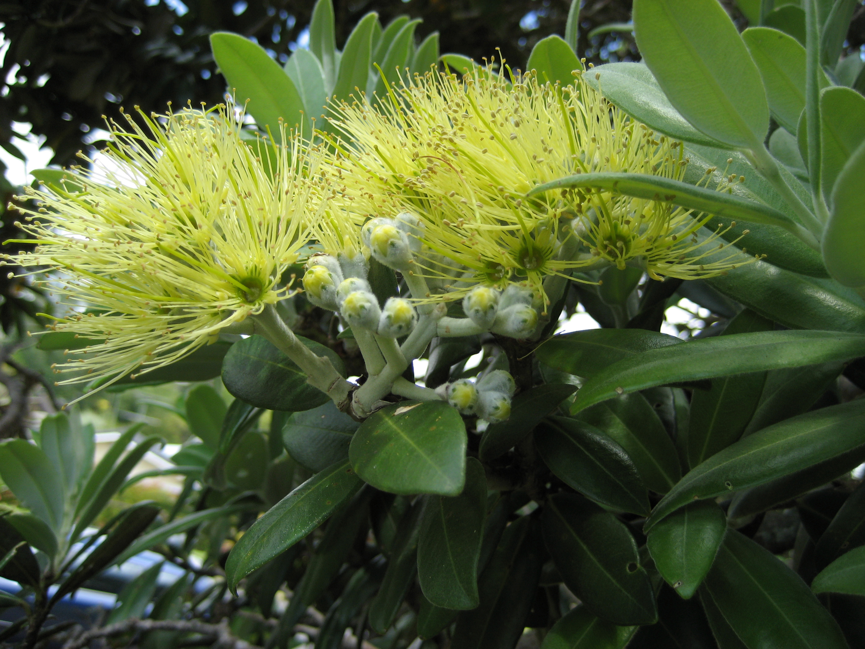 Pōhutukawa (Metrosideros excelsa), in flower, Manukau City, New Zealand. This is the variety "Aurea", a yellow-flowering cultivar of M. excelsa, a variant that occurs naturally on Mōtiti Island, Bay of Plenty, New Zealand